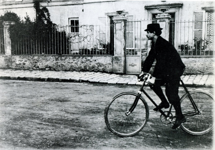 Photograph of Alfred Jarry on a bike in Corbeil.